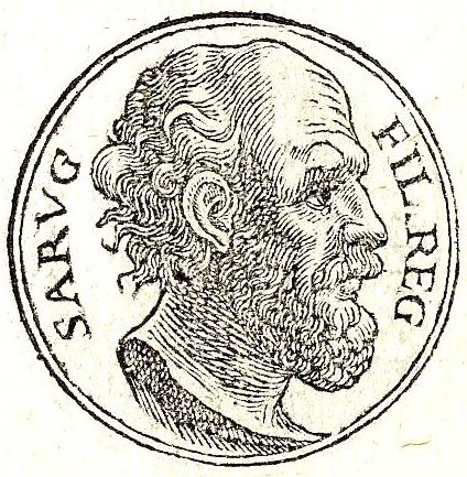 Serug (Hebrew: שְׂרוּג, S'rug ; "branch") was the son of Reu and the father of Nahor, according to Genesis 11:20-23.